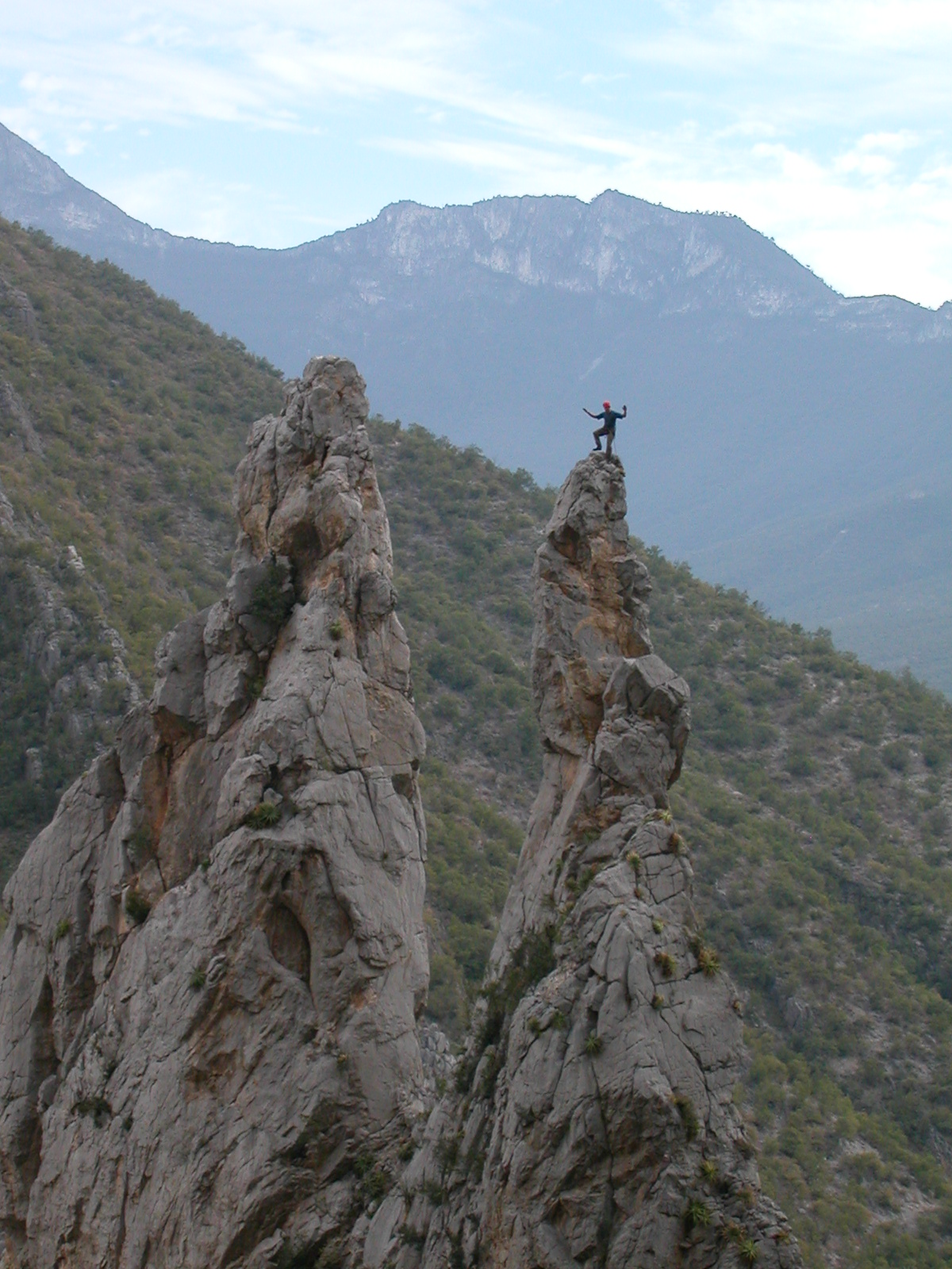 The Spires of Potrero Chico, Nuevo Leon state, northeastern Mexico. Rock climber atop the right spire.